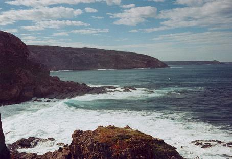 Cape de Couedic in Flinders Chase National Park, Kangaroo Island